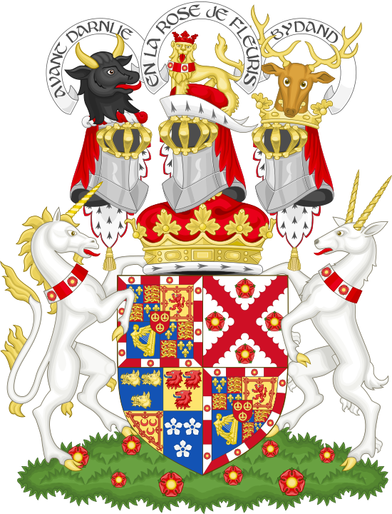 coat of arms of Richmond, Lennox and Gordon Arms. Quarterly: 1st and 4th grand quarters, the Royal Arms of Charles II (viz. quarterly: 1st and 4th, France and England quarterly; 2nd, Scotland; 3rd, Ireland); the whole within a Bordure compony Argent charged with Roses Gules barbed and seeded proper and the last (Lennox); overall an Escutcheon Gules charged with three Buckles Or (the Dukedom of Aubigny); (Coat of arms of Charles Lennox, 1st Duke of Richmond, 1st Duke of Lennox, 1st Duke of Aubigny, an illegitimate son of King Charles II) 2nd grand quarter, Argent a Saltire engrailed Gules between four Roses of the second barbed and seeded proper (Lennox); 3rd grand quarter, quarterly, 1st, Azure three Boars' Heads couped Or (Gordon); 2nd, Or three Lions' Heads erased Gules (Badenoch); 3rd, Or three Crescents within a Double Tressure flory counter-flory Gules (Seton); 4th, Azure three Cinquefoils Argent (Fraser). Crests. 1st (Lennox crest) a Bull's Head erased Sable horned Or; (Bull’s Head for Lennox with the motto Avant Darnlie[1]) 2nd (Richmond crest) on a Chapeau Gules turned up Ermine a Lion statant guardant Or crowned with a Ducal Coronet Gules and gorged with a Collar compony of four pieces Argent and gules charged with two roses of the last; (Richmond crest with Lennox collar and coronet). The Richmond motto: En la rose je fleurie – Like the rose, I flourish. 3rd (Gordon crest), out of a Ducal Coronet a Stag's Head affrontée proper attired with ten Tynes Or. ( stag with ducal coronet for Gordon. The motto Bydand means Steadfast) Supporters. Dexter: an Unicorn Argent armed, crined and unguled Or; Sinister: an Antelope Argent, also armed, crined and unguled Or, each supporter gorged with a Collar company as the crest. Motto. Over the 1st crest, Avant Darnlie; over the 2nd crest, En La Rose Je Fleuris; and over the 3rd crest, Bydand. Cracroft's Peerage